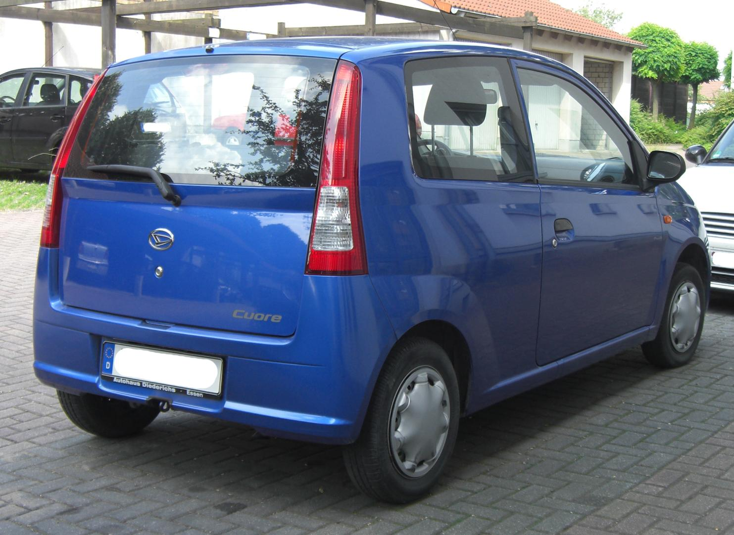 Daihatsu Cuore